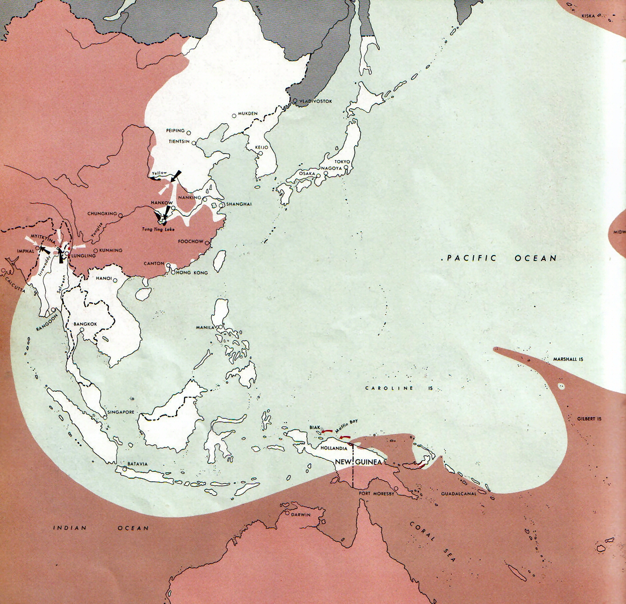 Map of the front against Japan as of 1 June 1944: This map is taken from the source "Atlas of the World Battle Fronts in Semimonthly Phases to August 15th 1945: Supplement to The Biennial report of The Chief of Staff of the United States Army July 1, 1943 to June 30 1945 To the Secretary of War". (See Cover, Forward and Map details)